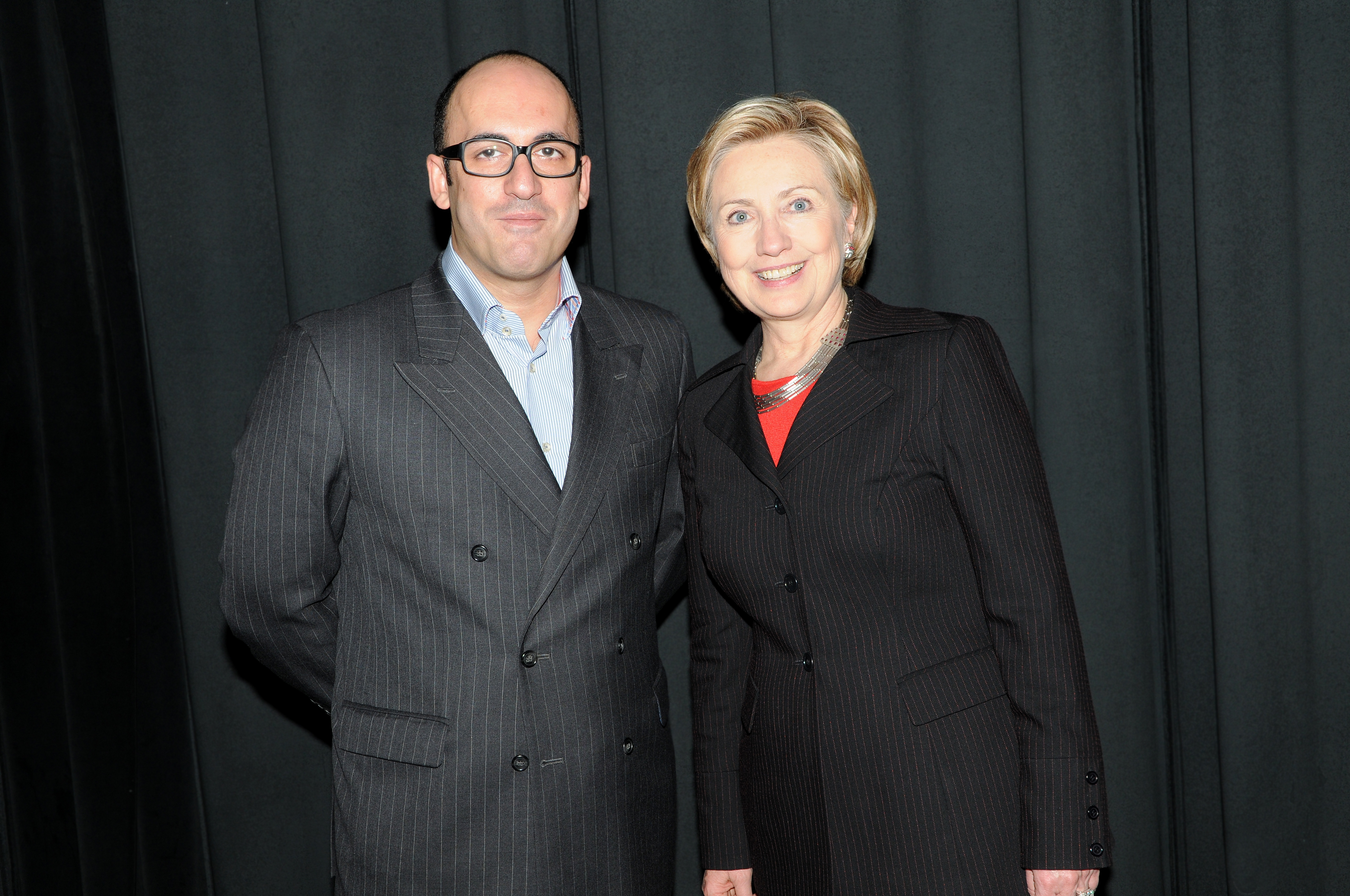 Veli Mehmet Emin Toprak and Hillary Rodham Clinton at a fundraiser.